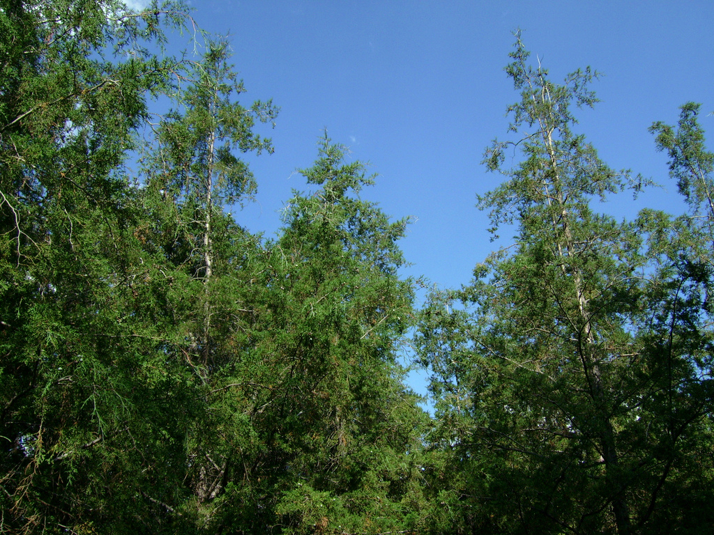 Cupressus lusitanica, Puebla, Mexico.